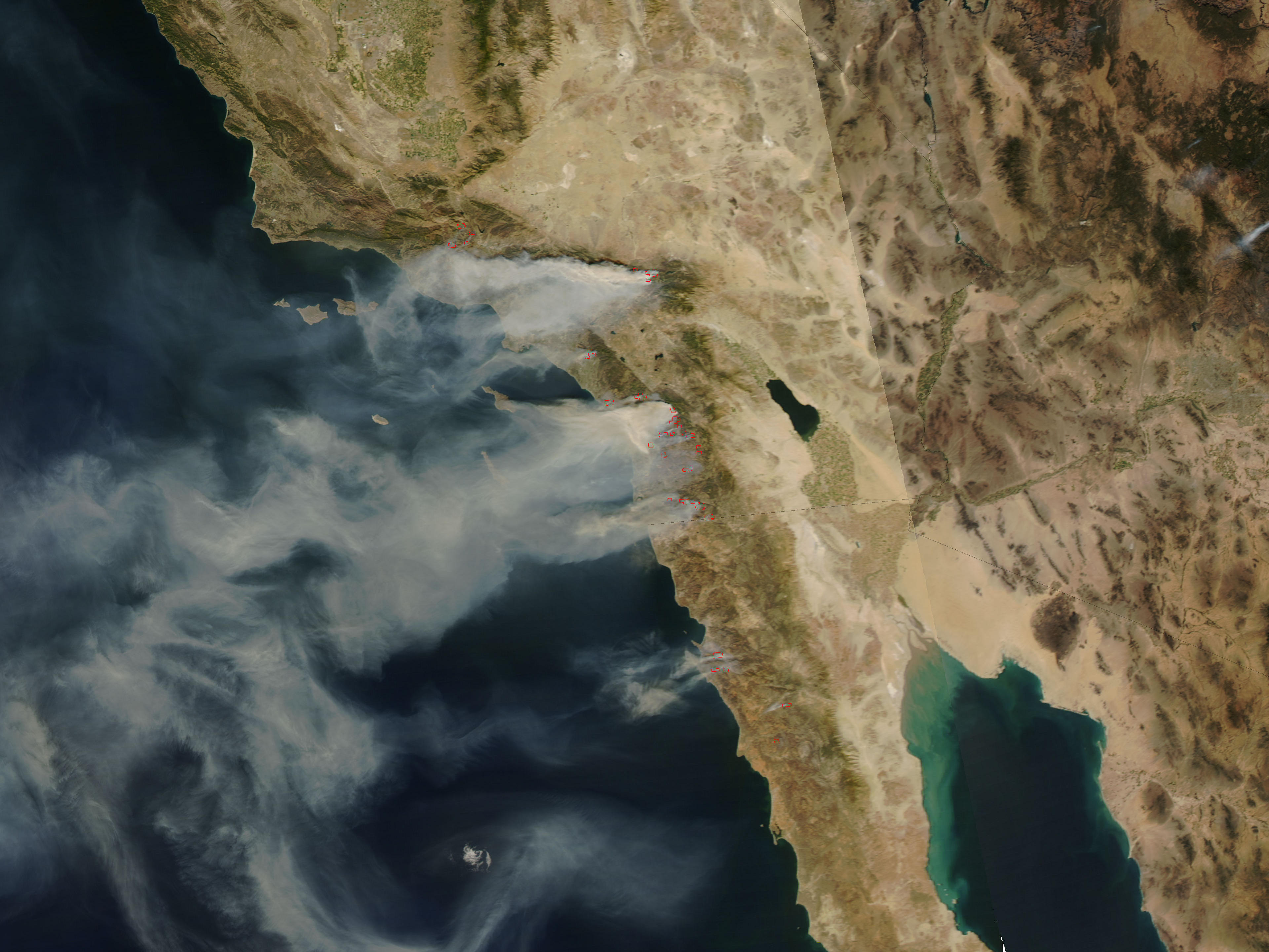 NASA MODIS Rapid Response System image showing California wildfires of October 2007 on October 23 AERONET_La_Jolla - Date 2007/296 - 10/23 True color - Satellite Aqua - Pixel size: 250m projection Plate Carree projection center lon +0.0000 projection center lat +0.0000 UL lon -122.8819 UL lat +36.1043 UR lon -111.6117 UR lat +36.1043 LR lon -111.6117 LR lat +29.6292 LL lon -122.8819 LL lat +29.6292 x scale factor +0.7660444431189780 ellipsoid WGS84 Contact Jacques Descloitres Level-2 granules A072962000 A072962140